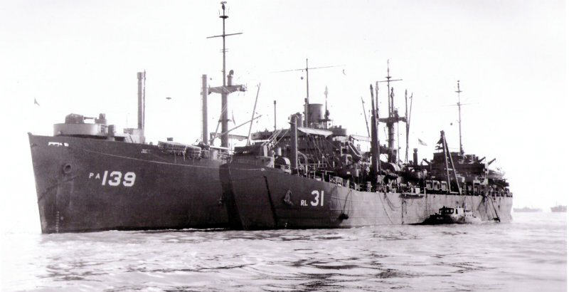 USS Bellerophon (ARL-31) alongside the USS Broadwater (APA-139) in San Francisco Bay. A strike by civilian workers paralyzed civilian yards in the San Francisco area during the latter part of October 1945, Bellerophon provided voyage repairs to "Magic Carpet" ships in the harbor during the strike. US Navy photo.